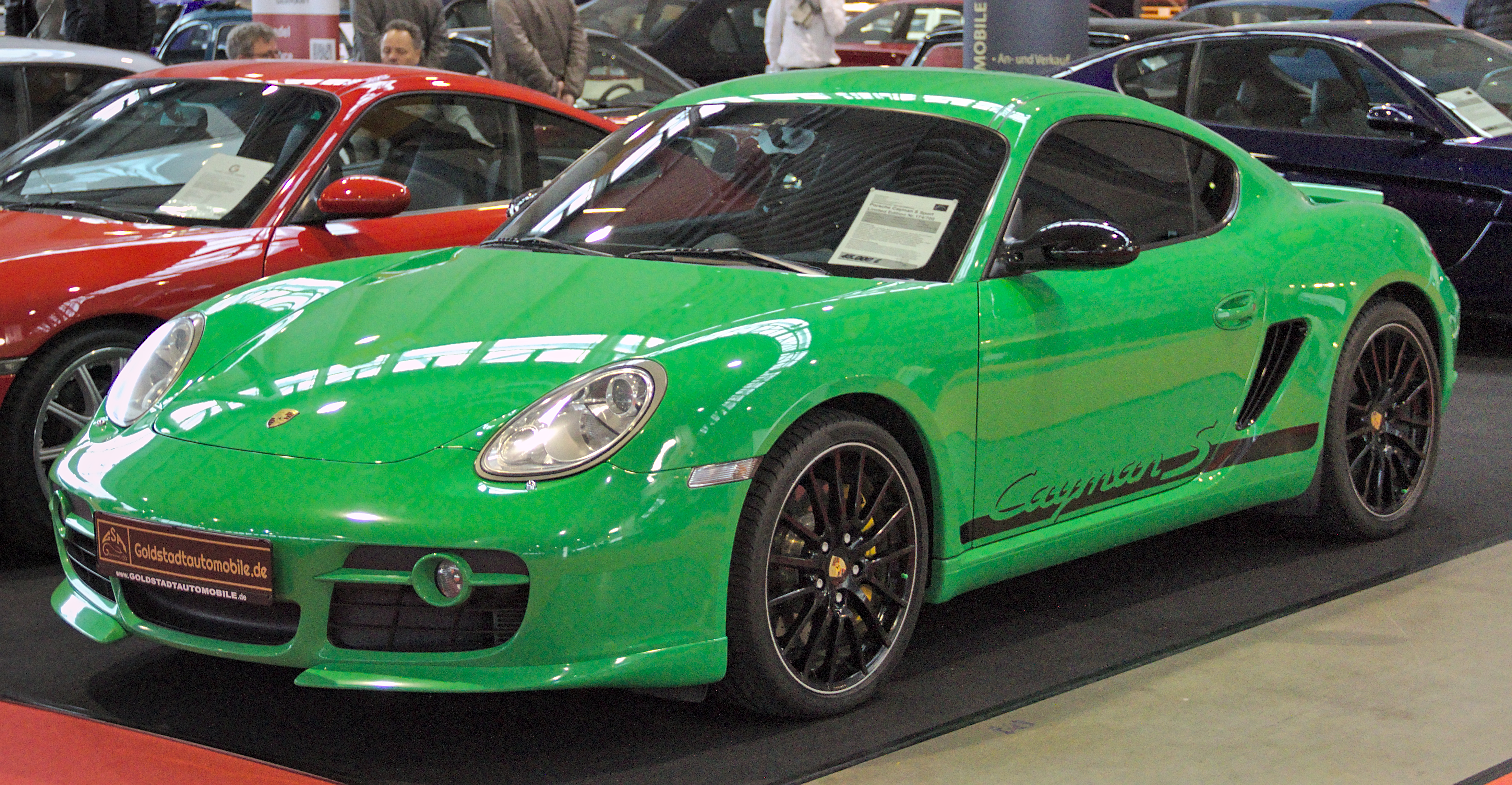 Porsche 987c Cayman S Sport (2008) at Retro Classics 2020